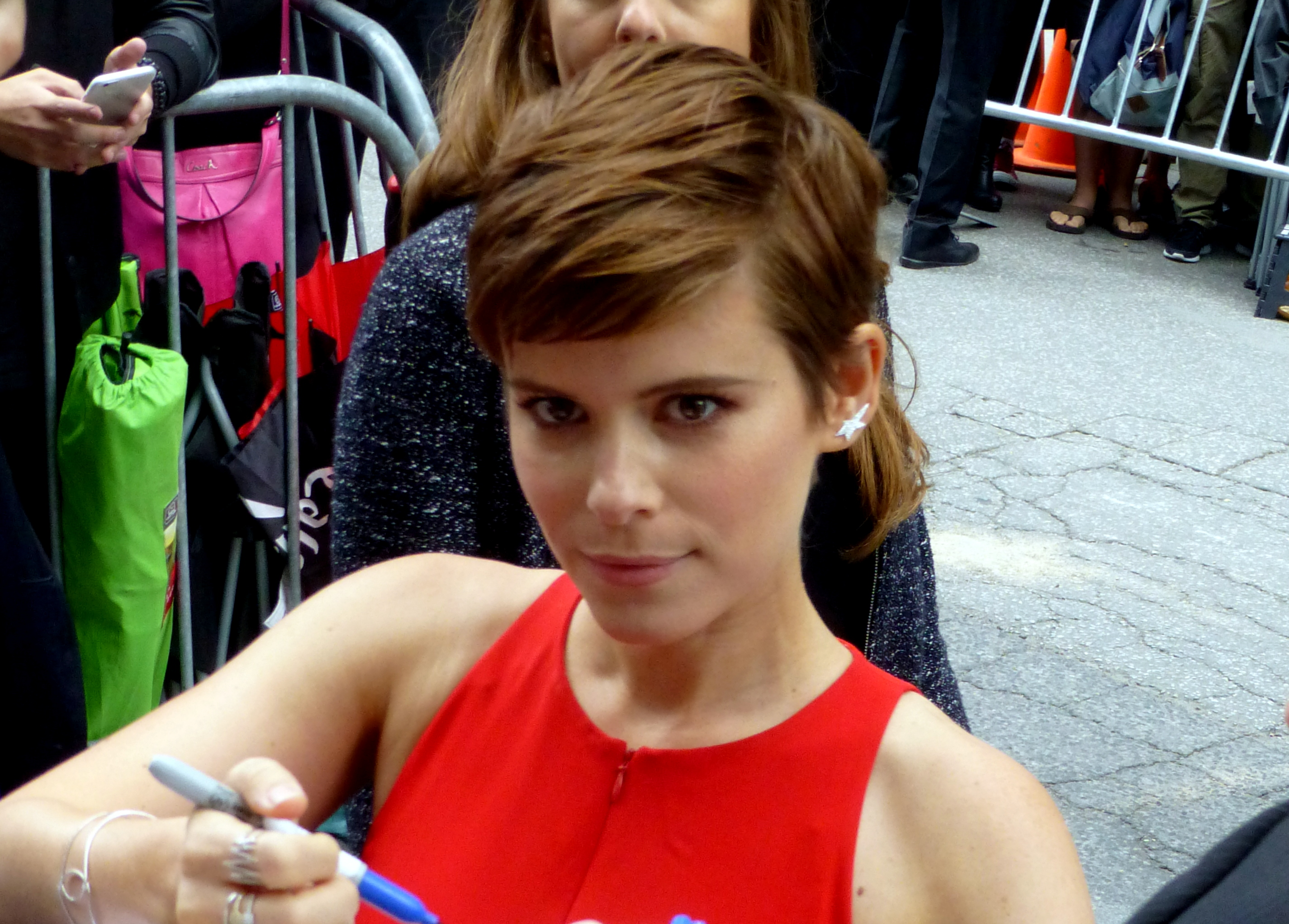 Kate Mara at press conference for the Martian, 2015 Toronto Film Festival